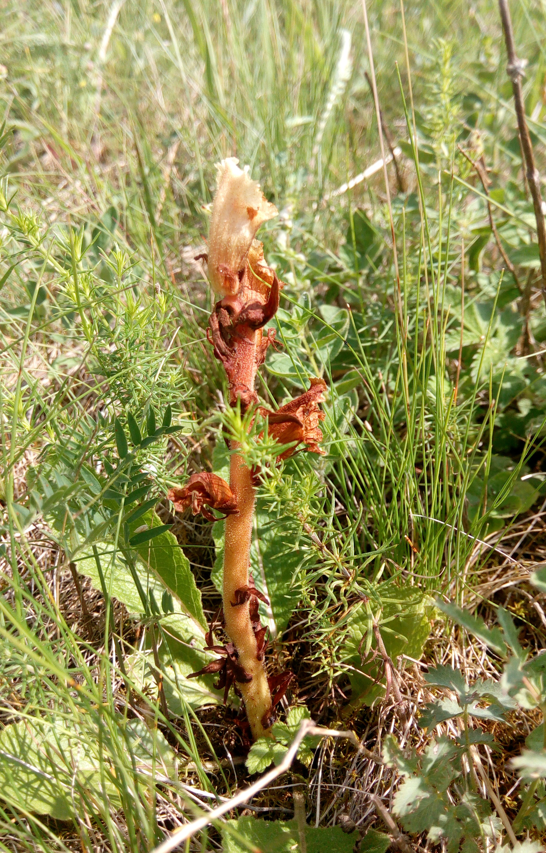 Orobanche alba in the natural monument Cvičák north of the town of Český Krumlov, south Bohemia, Czech Republic.